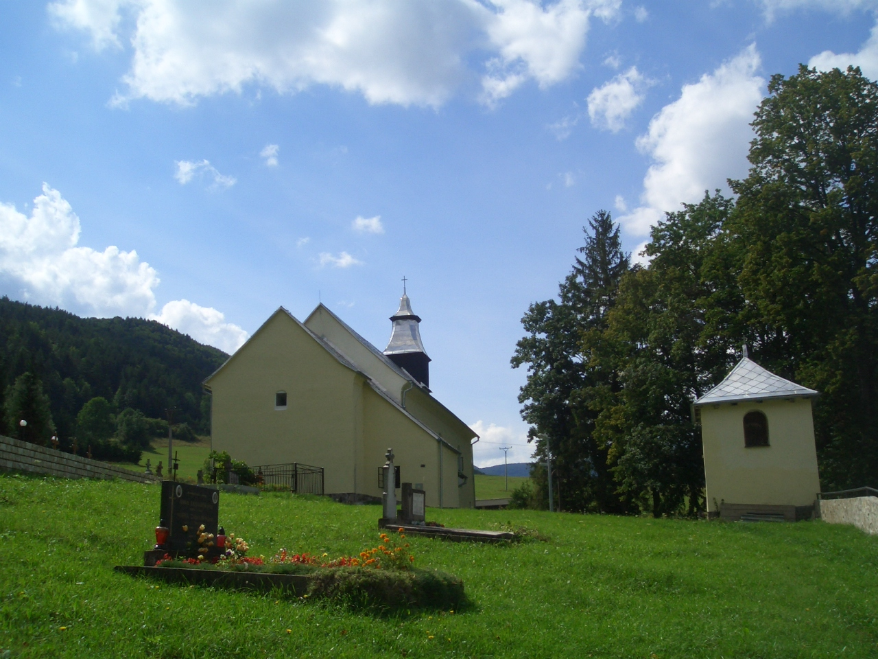 St. Bartholomäus church in Vrícko/Slovakia